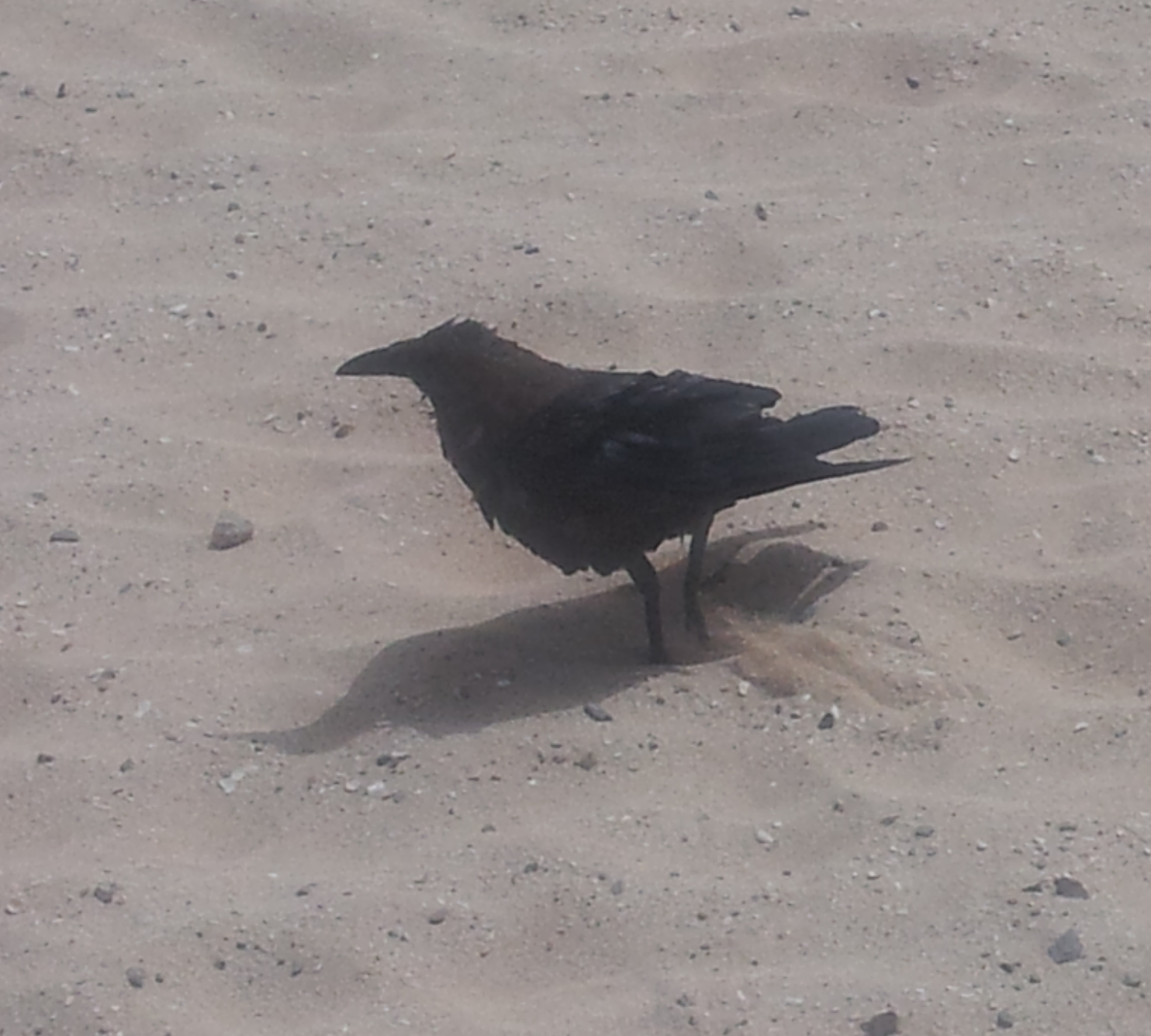 Bird Brown-necked raven (Corvus ruficollis) on Boa-Vista Beach (Cape Verde).